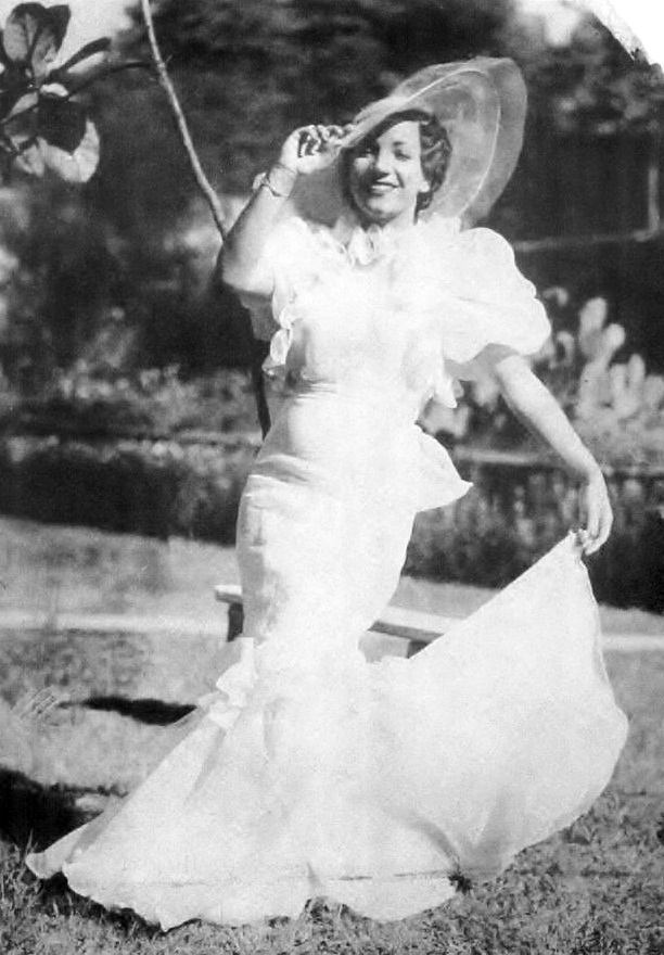 Carmen Miranda no filme Alô, Alô Brasil, 1935.